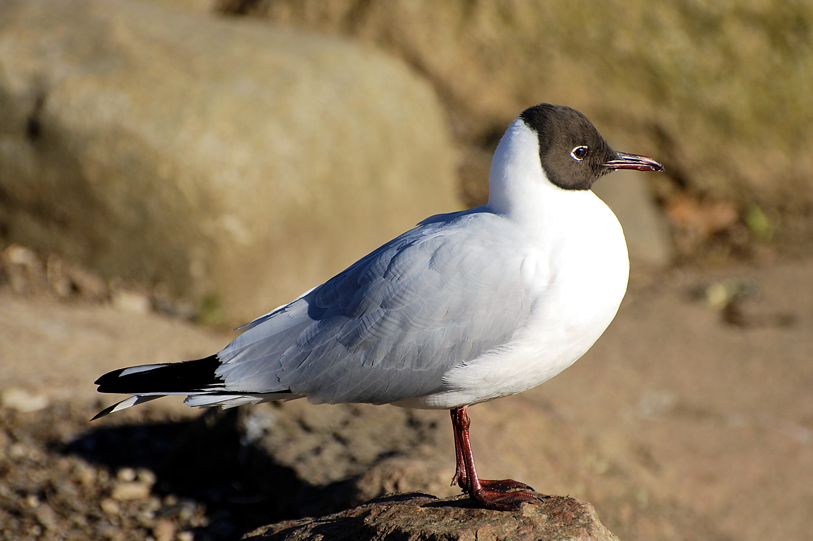 Chroicocephalus ridibundus adult summer plumage